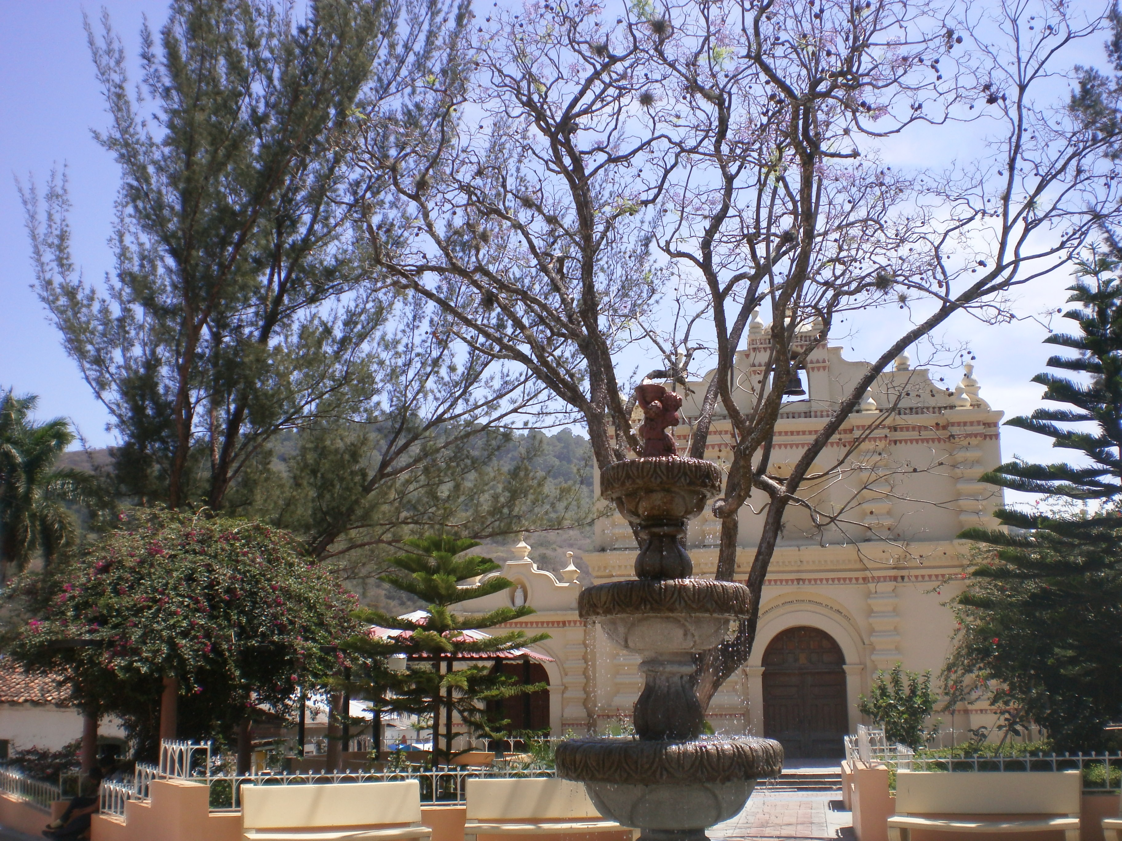 Principal park in Sabanagrade, Francisco Morazán, Honduras